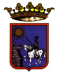 Coat of arms of the city of Medinacel (Spain) El escudo de Medinaceli muestra a un hombre sobre corcel blanco a la diestra de un castillo, con lanza en mano derecha apuntando a un sol de oro, sobre campo de azur, bordura de gules.